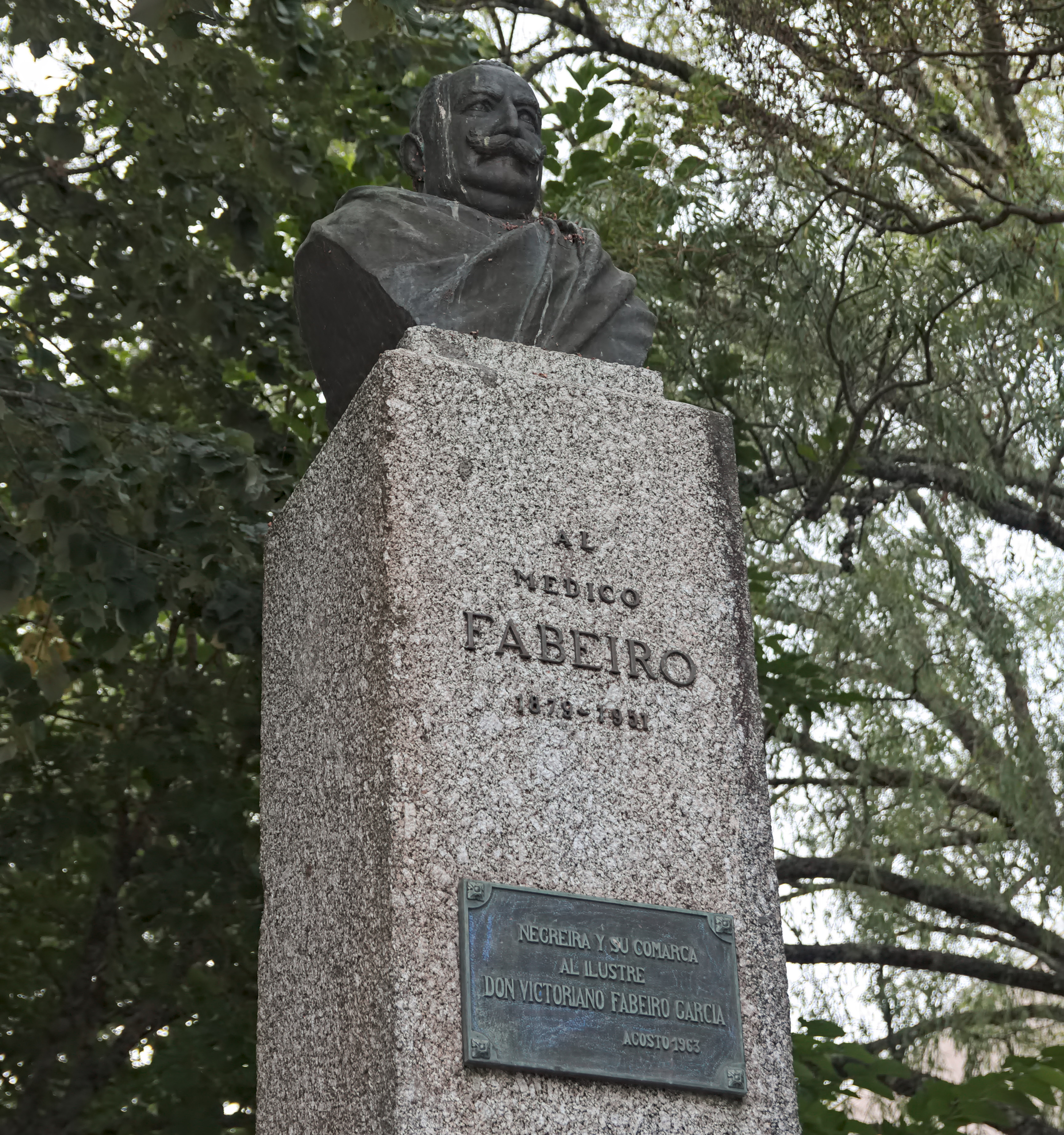 Bust of Victoriano Fabeiro García, galician medic and politician, in Negreira, Galicia, Spain.